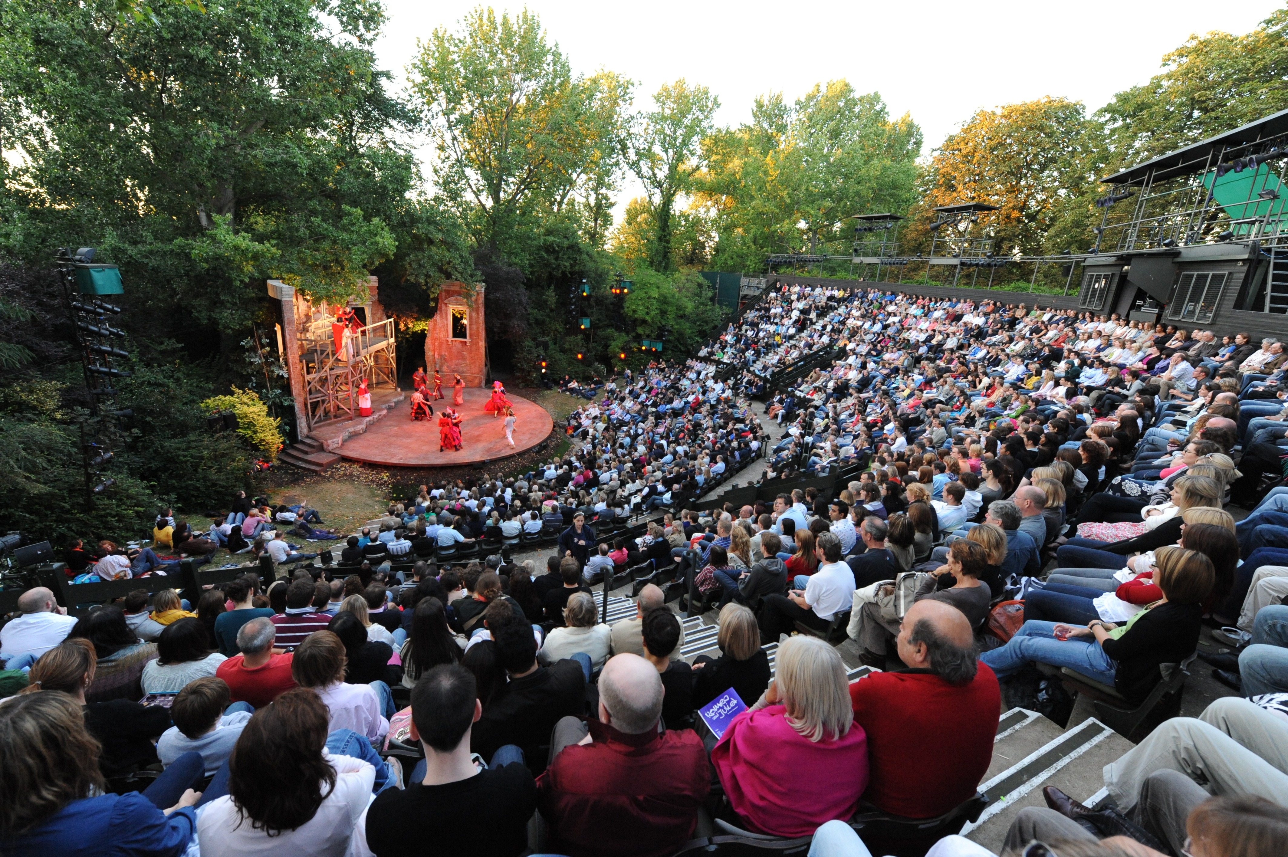 The Auditorium of Regent's Park Open Air Theatre